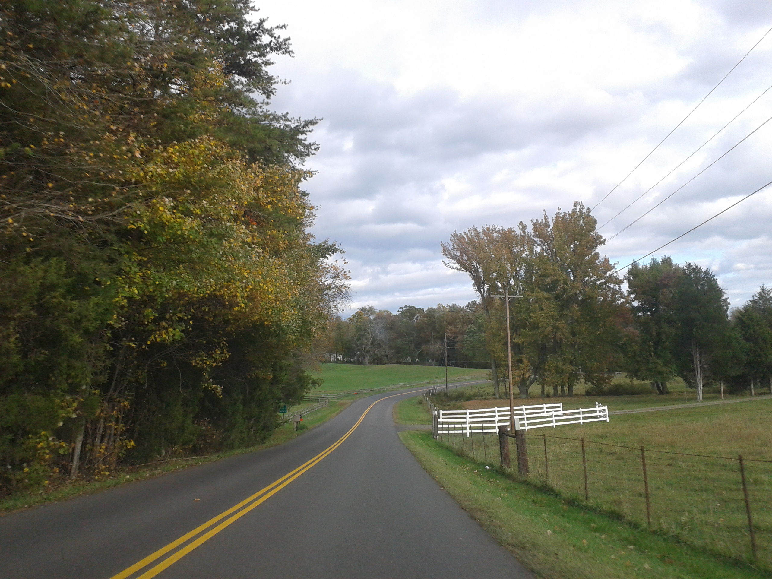 Landscape near Tryme, Virginia, on the border between Madison and Culpeper Counties